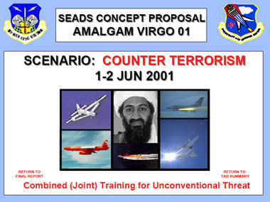 This is the actual cover for the official government Seads proposal titled "Amalgam Virgo 01" which was scheduled on June 1 - 2, 2001.